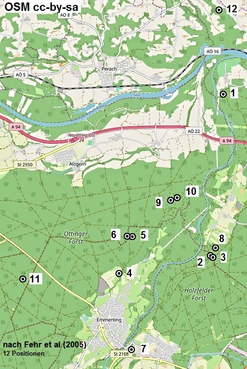 Position of 12 investigated craterlike depressions between Burghausen und Marktl (district Altötting, Upper Bavarian). Fehr K.T. et al.: A meteorite impact crater field in Eastern Bavaria? A preliminary report. (2005)